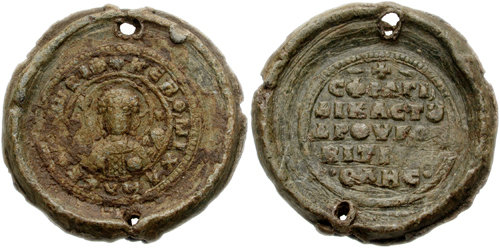 ANONYMOUS, Dikastes of Drougoubitae. 11th Century AD. Lead Seal (32mm, 25.02 g, 11h). Facing bust of St. Michael / +CFRAGI[C]/DIKACTOV/DROVGOV/BITI[EwN]/•OLHC• in five lines across fields. Zacos and Veglery -. Choice VF, twice holed.